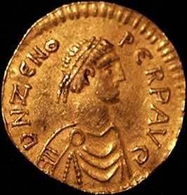 Gold tremissis of emperor Zeno (474-491). Sear# 4387.